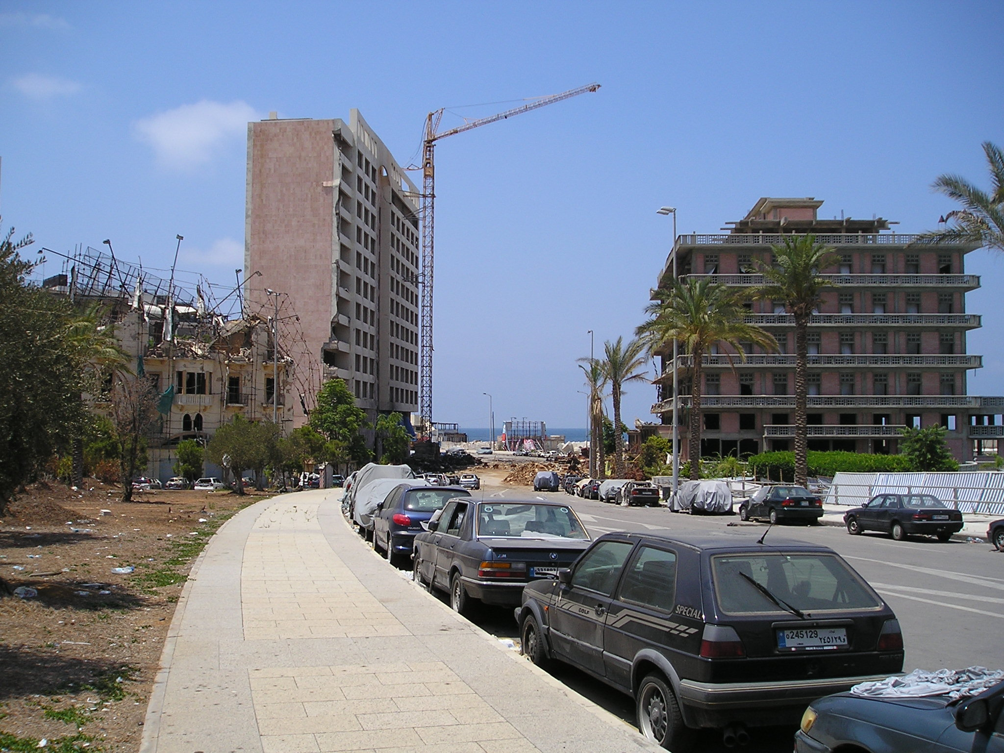 Beirut, Lebanon: part of Rue Minet al Hosn, where Rafik Hariri was assassinated on February 14, 2005. The photo was taken on July 22, 2005 when investigation still wasn't completed and the street was "conserved" and closed.